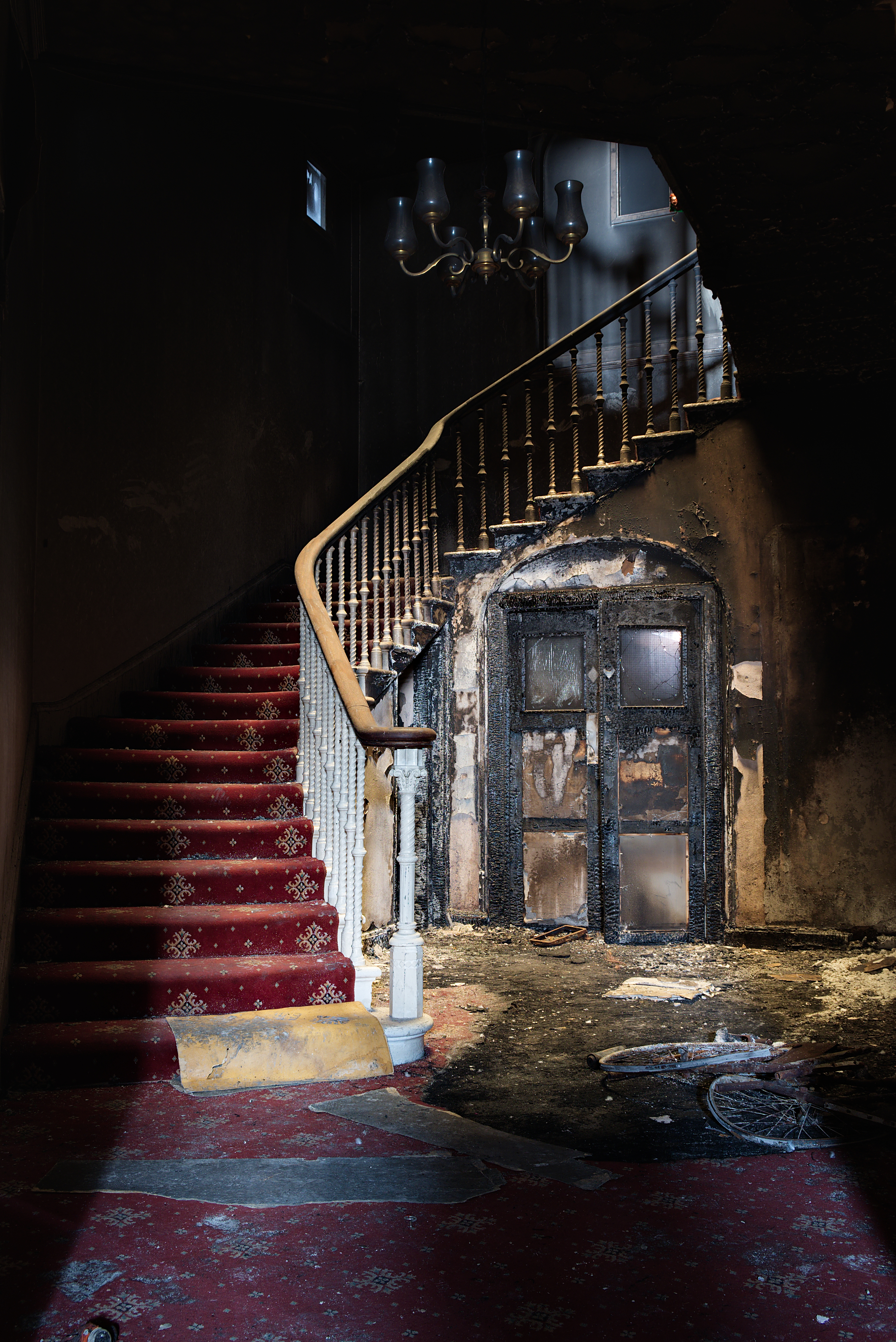 Staircase of the abandoned Central Hotel in Annan, Scotland